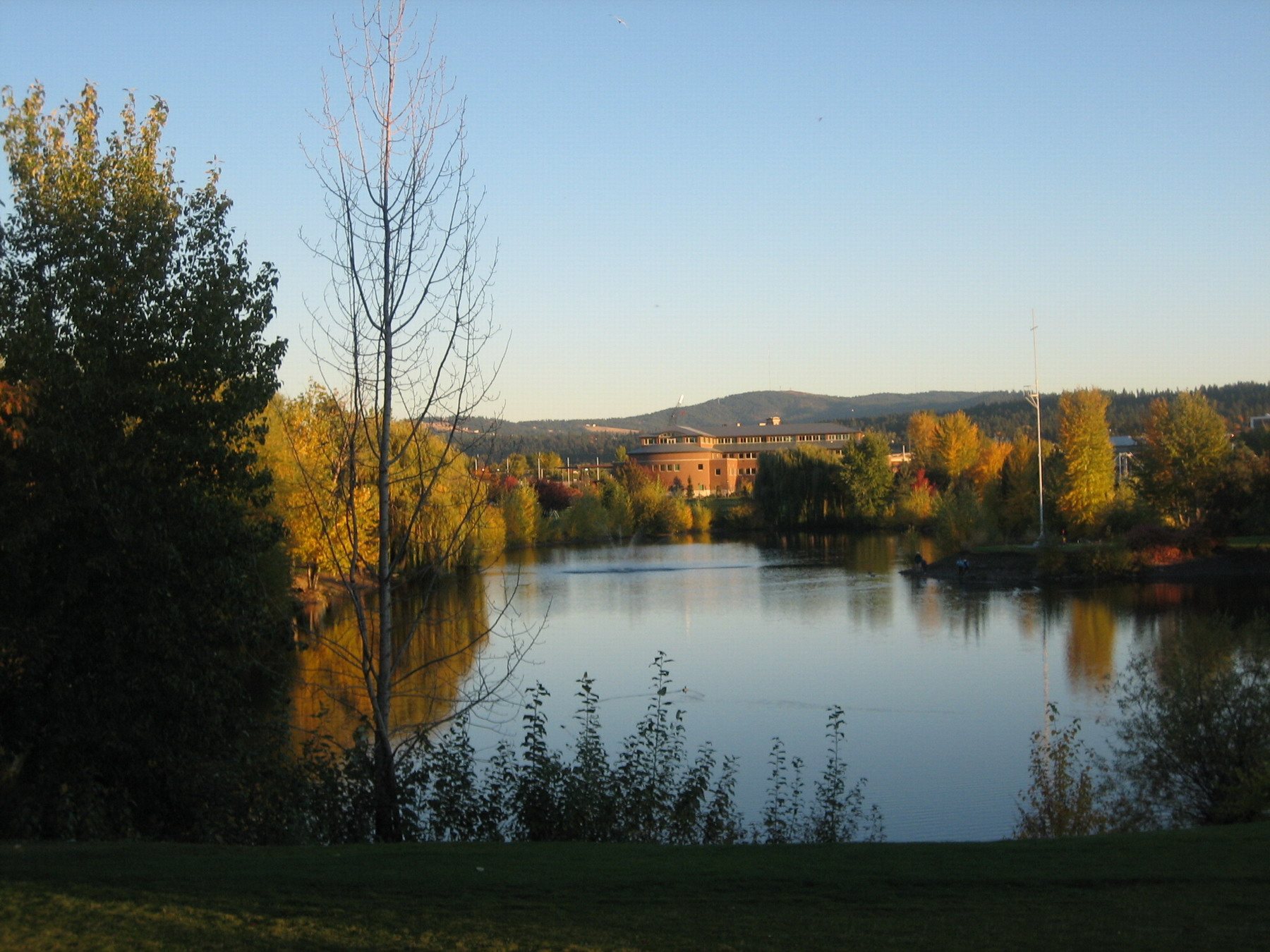 Photo of Gonzaga University School of Law from north of Lake Arthur [Spokane, WA]